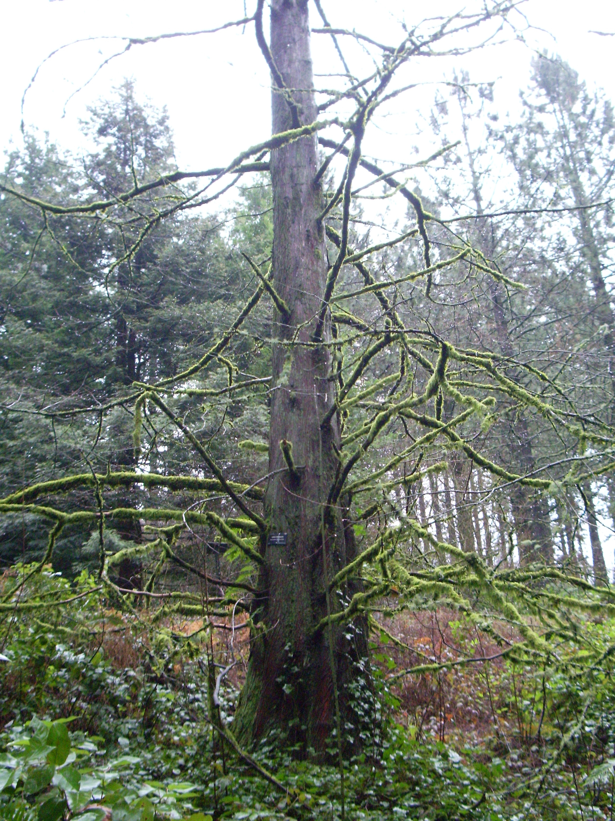 Hoyt Arboretum Mature Dawn Redwood (57 year Metasequoia glyptostroboides) in winter